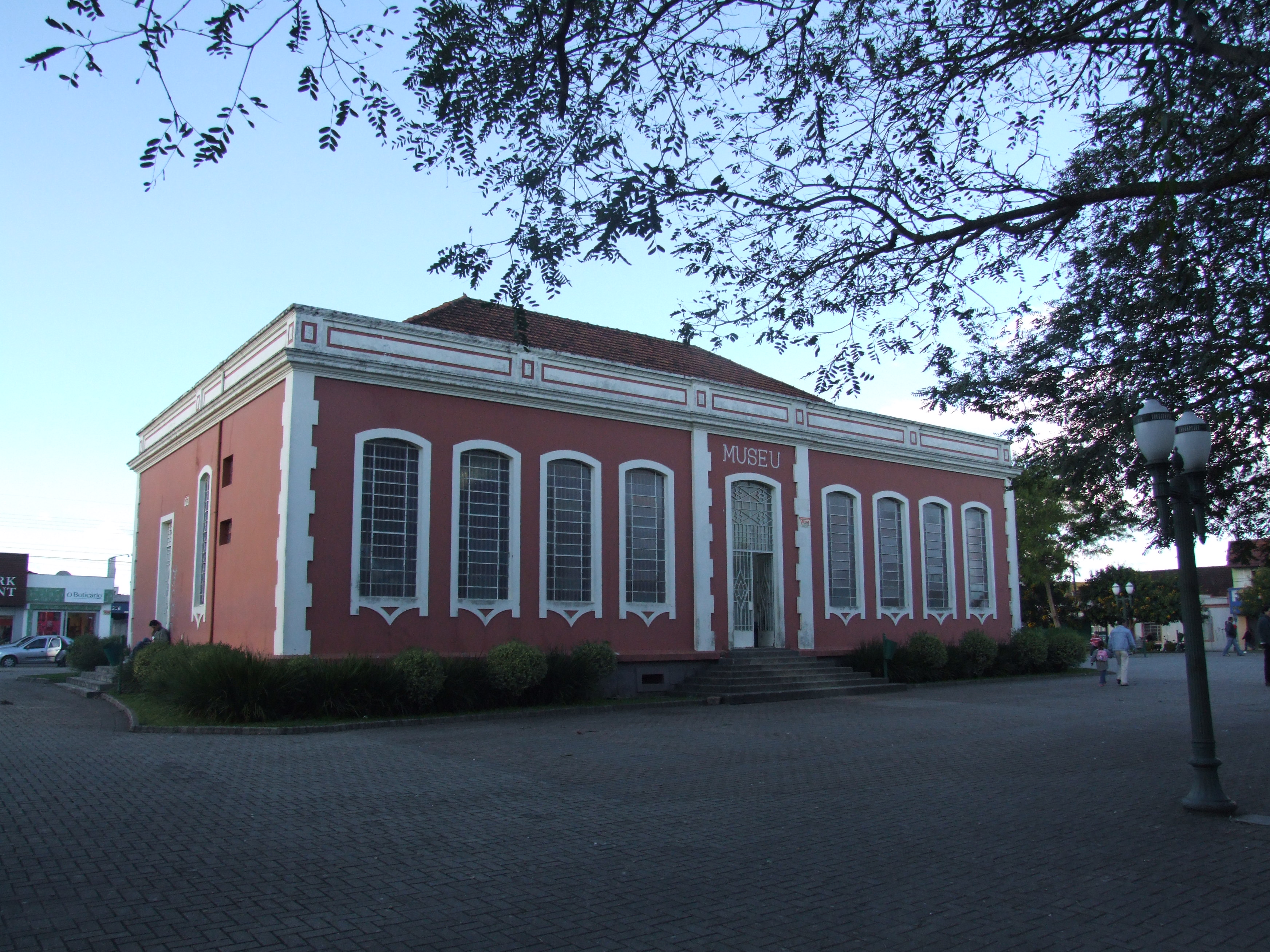 Historic Museum of Campo Largo, Paraná, Brazil.